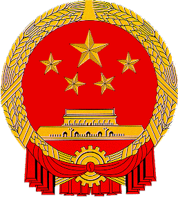 National enblem of the People's Republic of China